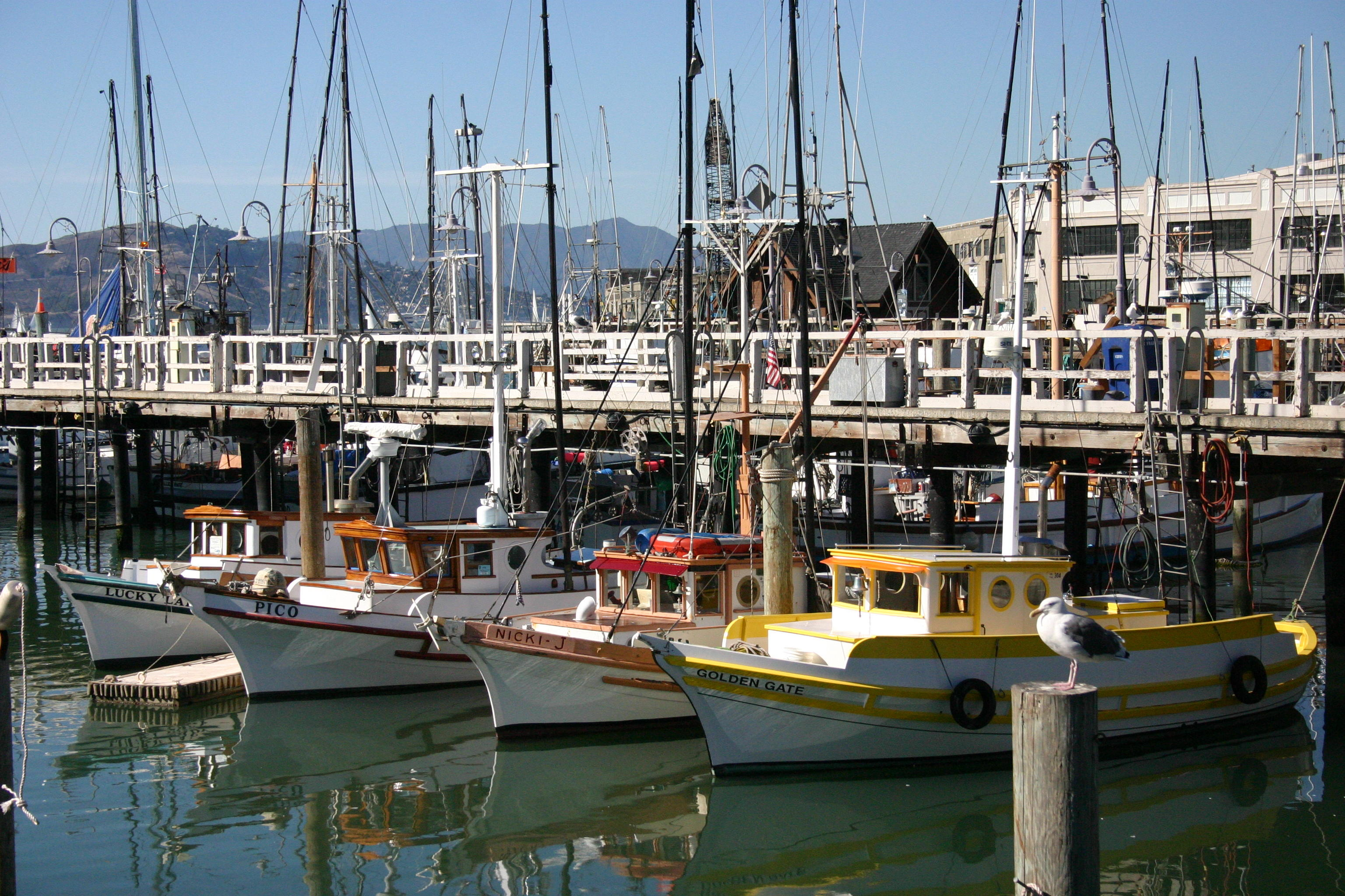 Boats on Fisherman's Wharf, San Francisco